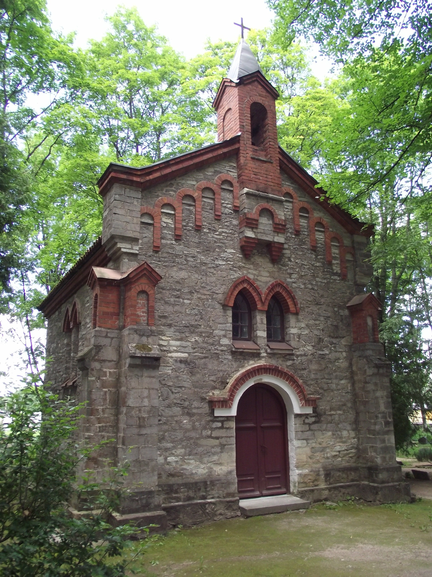 Chapel in Reopalu cemetery, Paide. Built in 1909.